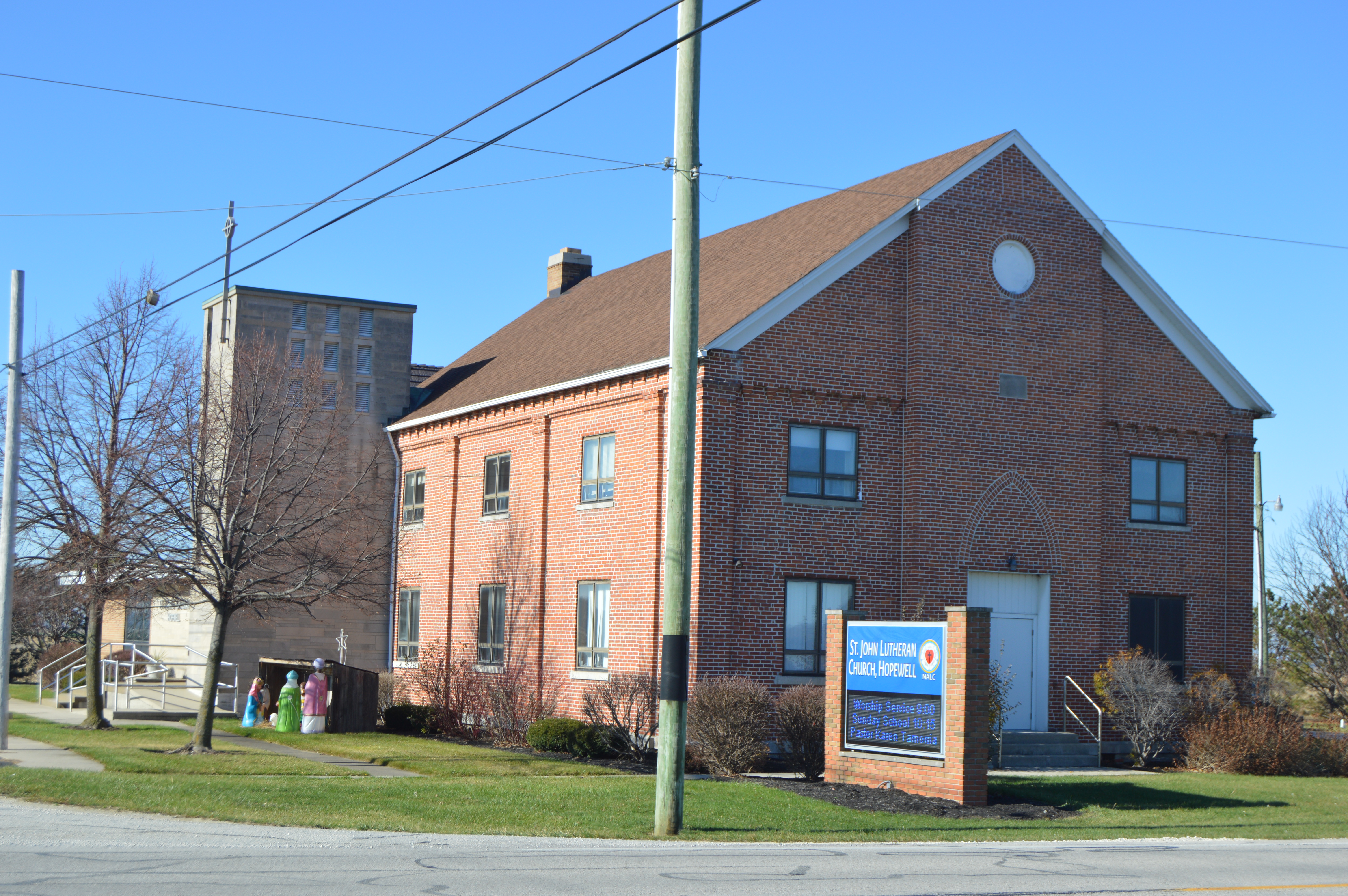 Front and southern side of St. John's Lutheran Church, Hopewell (NALC), located at 9009 State Route 118 in Hopewell Township, Mercer County, Ohio, United States. It was built in 1954.